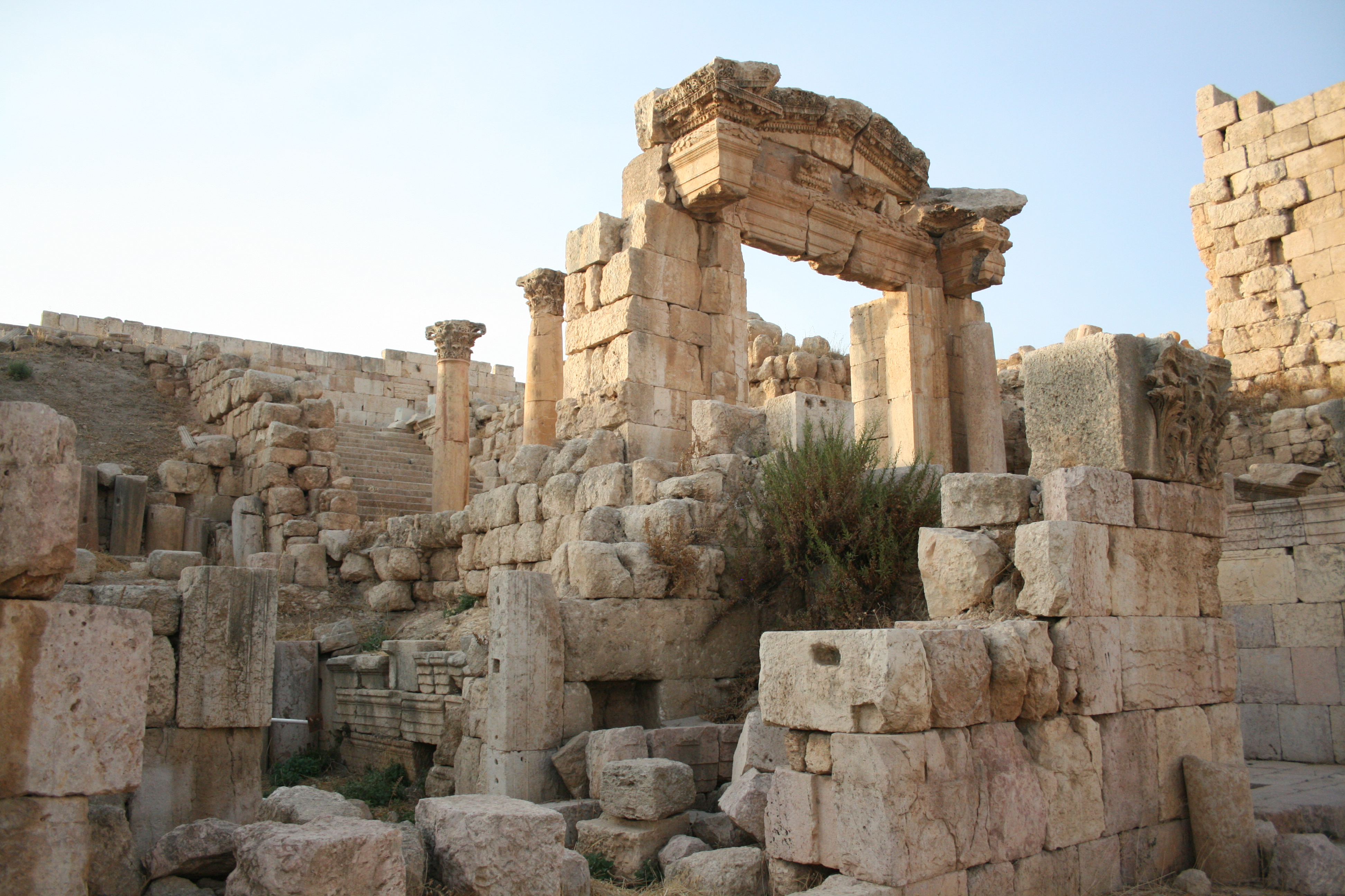 Cardo maximus, Jerash, Jordan